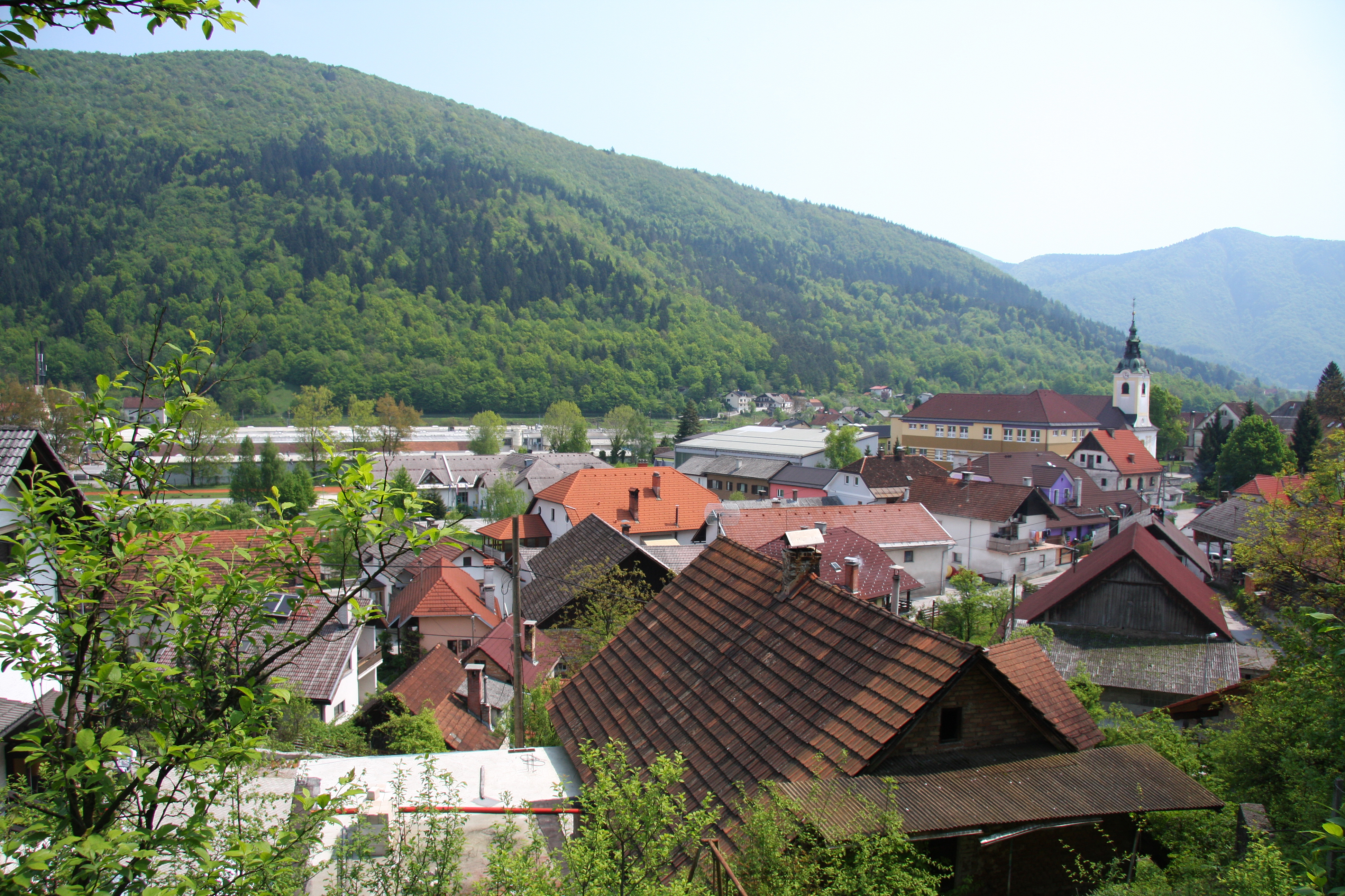 Borovnica, a town in Slovenia